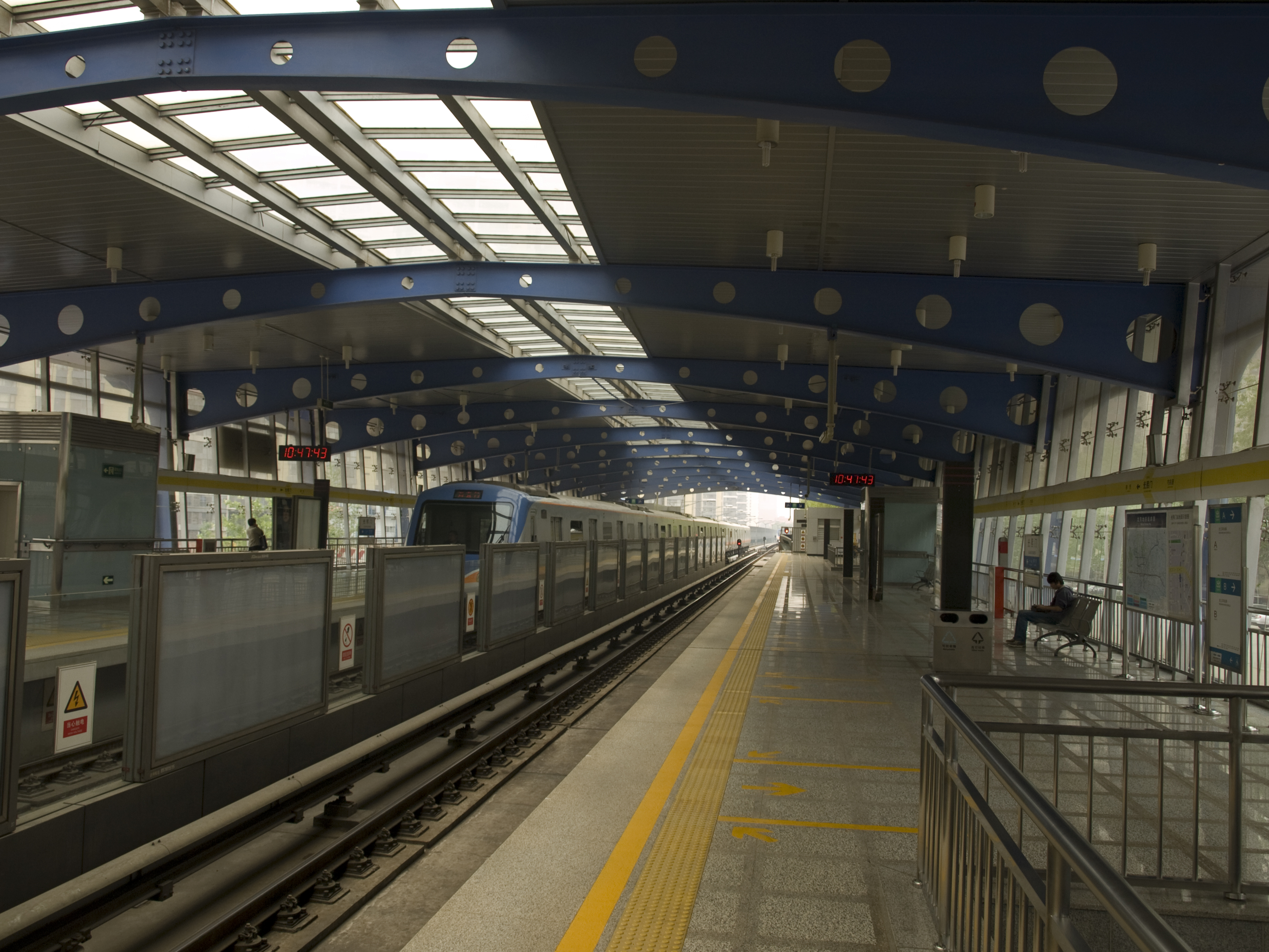 Guangximen station, Beijing Subway